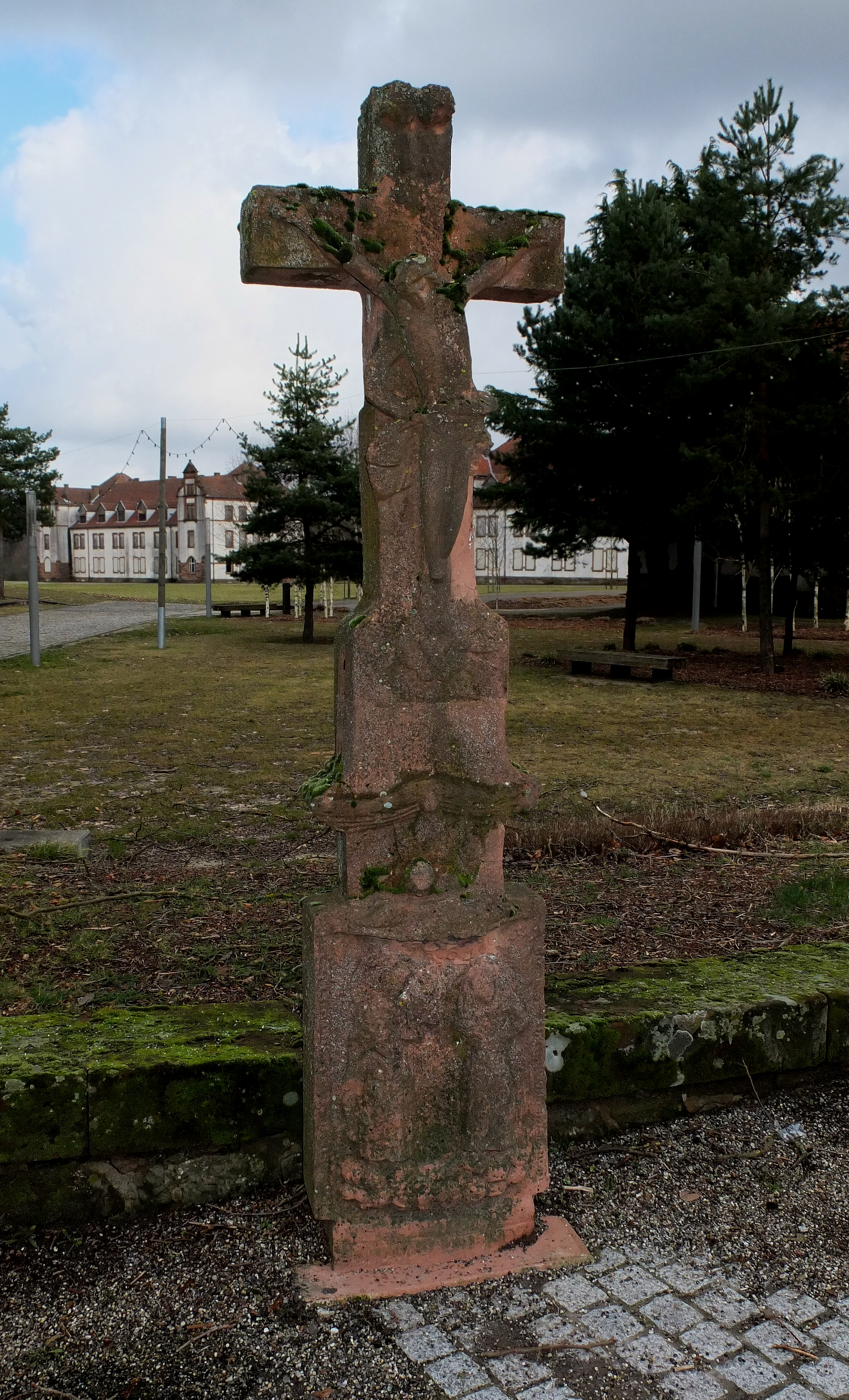 Wayside cross (late 18th century) in Bitche, France, Rue Général Stuhl